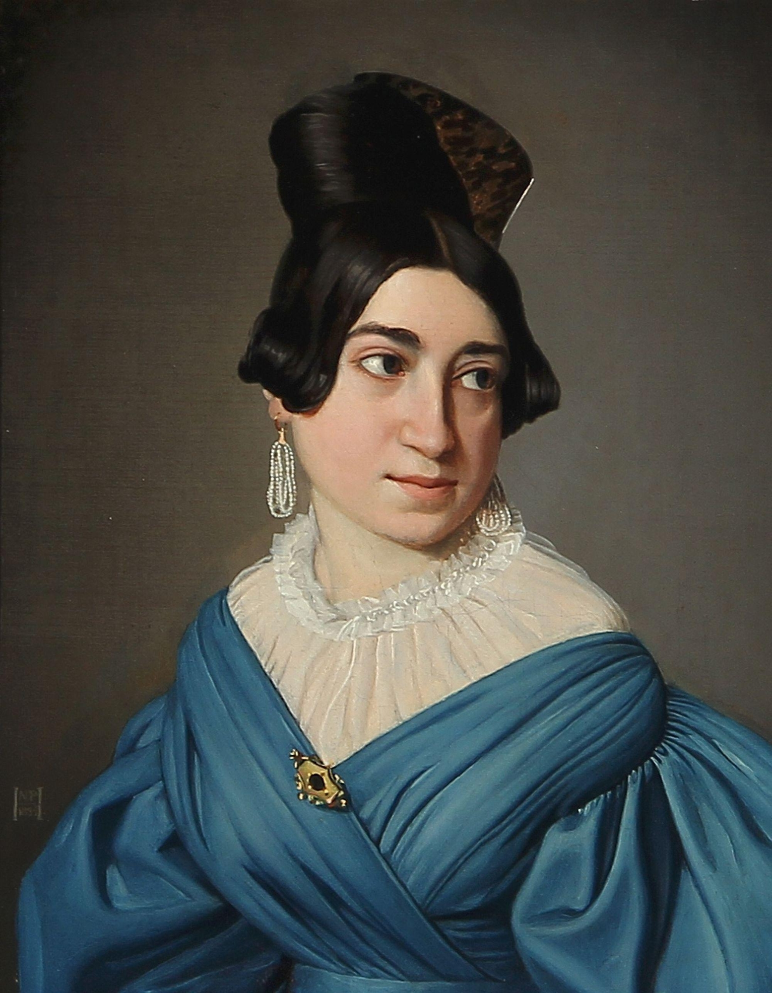 Portrait of a young girl in a blue dress with a gold brooch